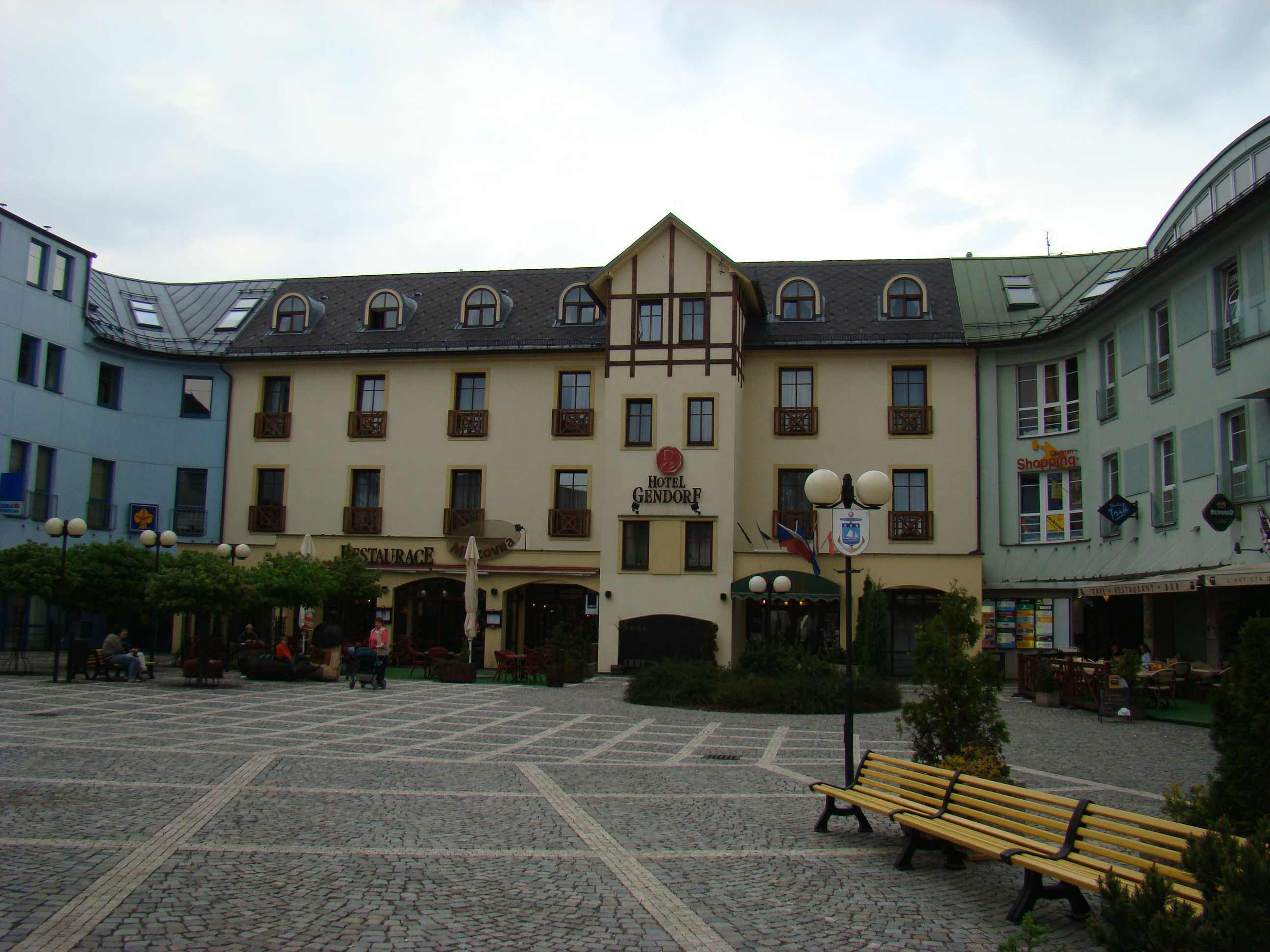 Hotel Gendorf in Vrchlabí, Czech Republic.